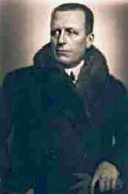 French writer Claude Anet (1868—1931) in 1920